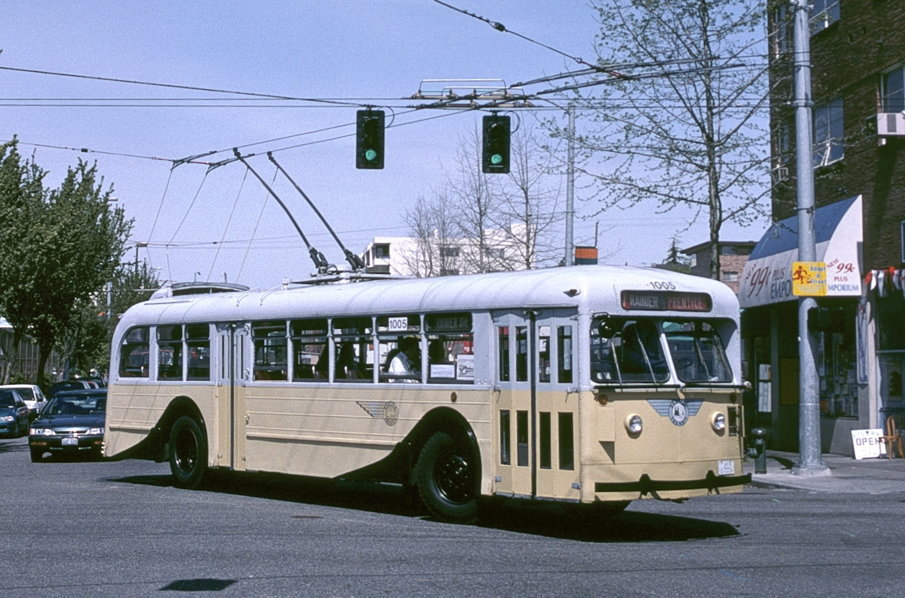 Seattle trolleybus 1005, built in 1944 by Pullman-Standard, was retired from service in January 1978 (carrying fleet number 655), but in the mid-1980s it was restored by volunteers from the Metro Employees Historic Vehicle Association, for operation on public and private excursions. The paint scheme it has worn since then was the Seattle Transit System's standard paint scheme in the late 1940s and early 1950s. This photo shows No. 1005 turning from University Way onto NE 50th Street in the University District, using overhead trolley wires installed just a few years earlier, for route 70, which was converted to trolleybuses in 1997. It is displaying historically correct signage for southbound trips on trolleybus route 7, which passed through this same intersection until being converted to diesel buses in 1963. Route 7 was reconverted to trolleybuses in 1981 (but not extending this far north). In this 2000 photo, No. 1005 was operating on a special excursion in commemoration of the 60th anniversary (two days prior) of the opening of the Seattle trolleybus system.